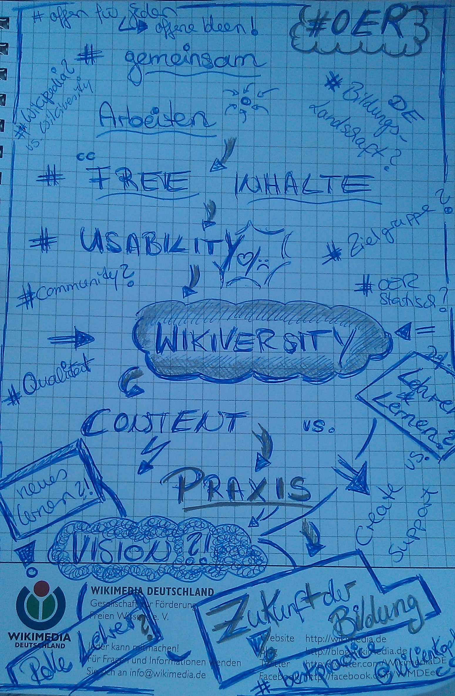 sketchnote oer